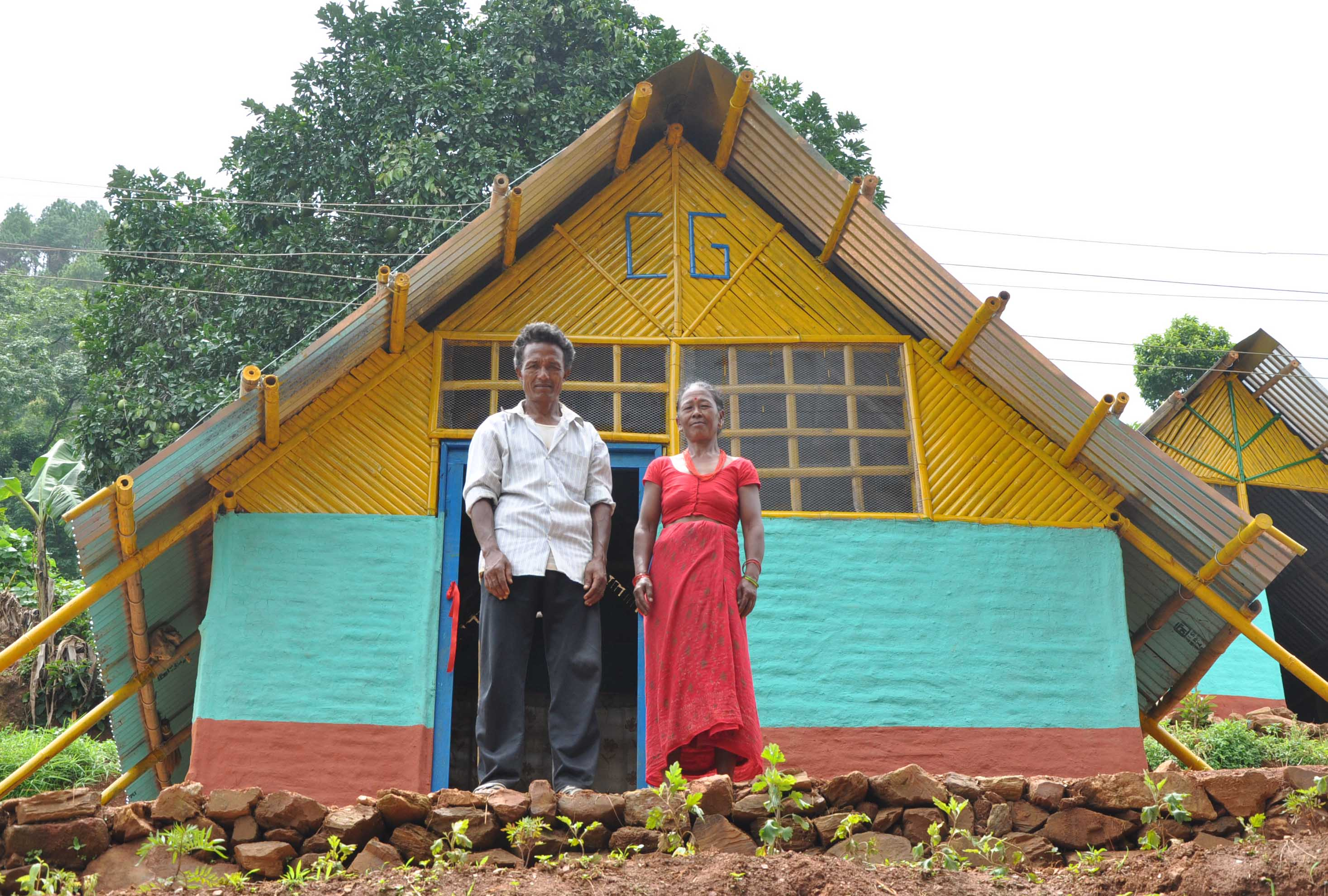 CG Transitional Shelter built in Dolalghat, 60 km east of Kathmandu